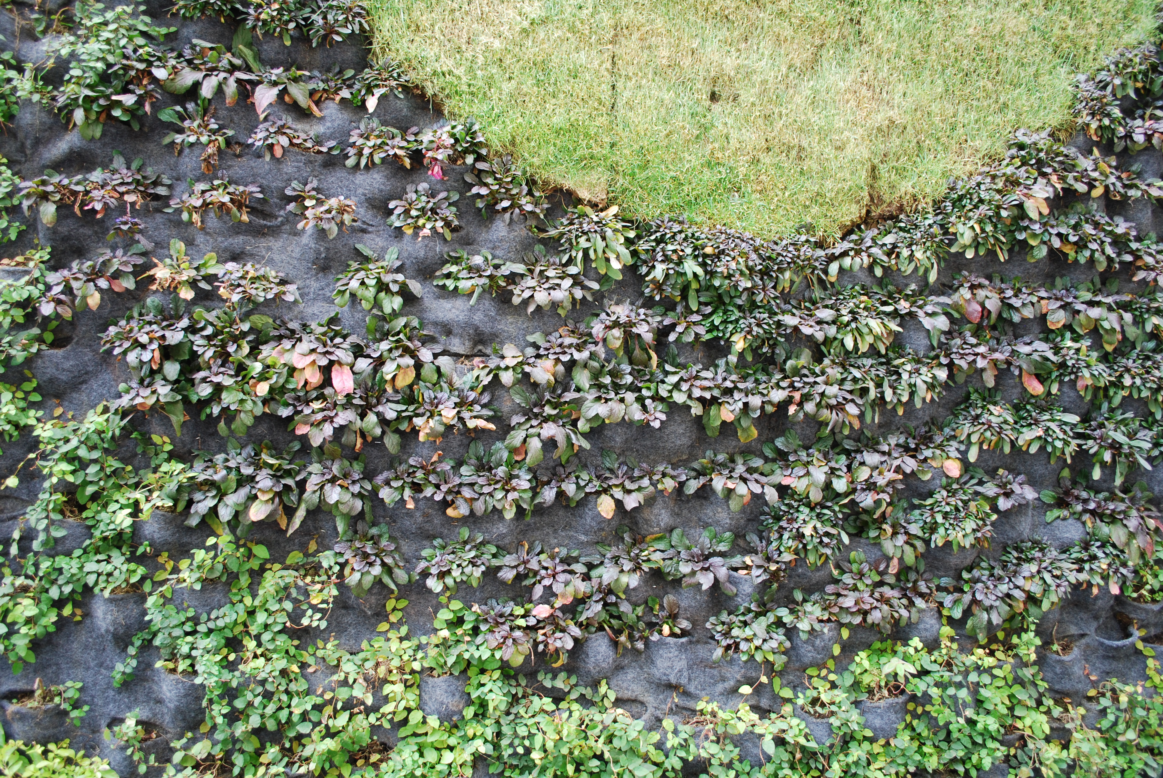 Green wall at the Universidad del Claustro de Sor Juana in the historic center of Mexico City